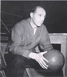 Nebraska Cornhuskers basketball coach Adolph Lewandowski